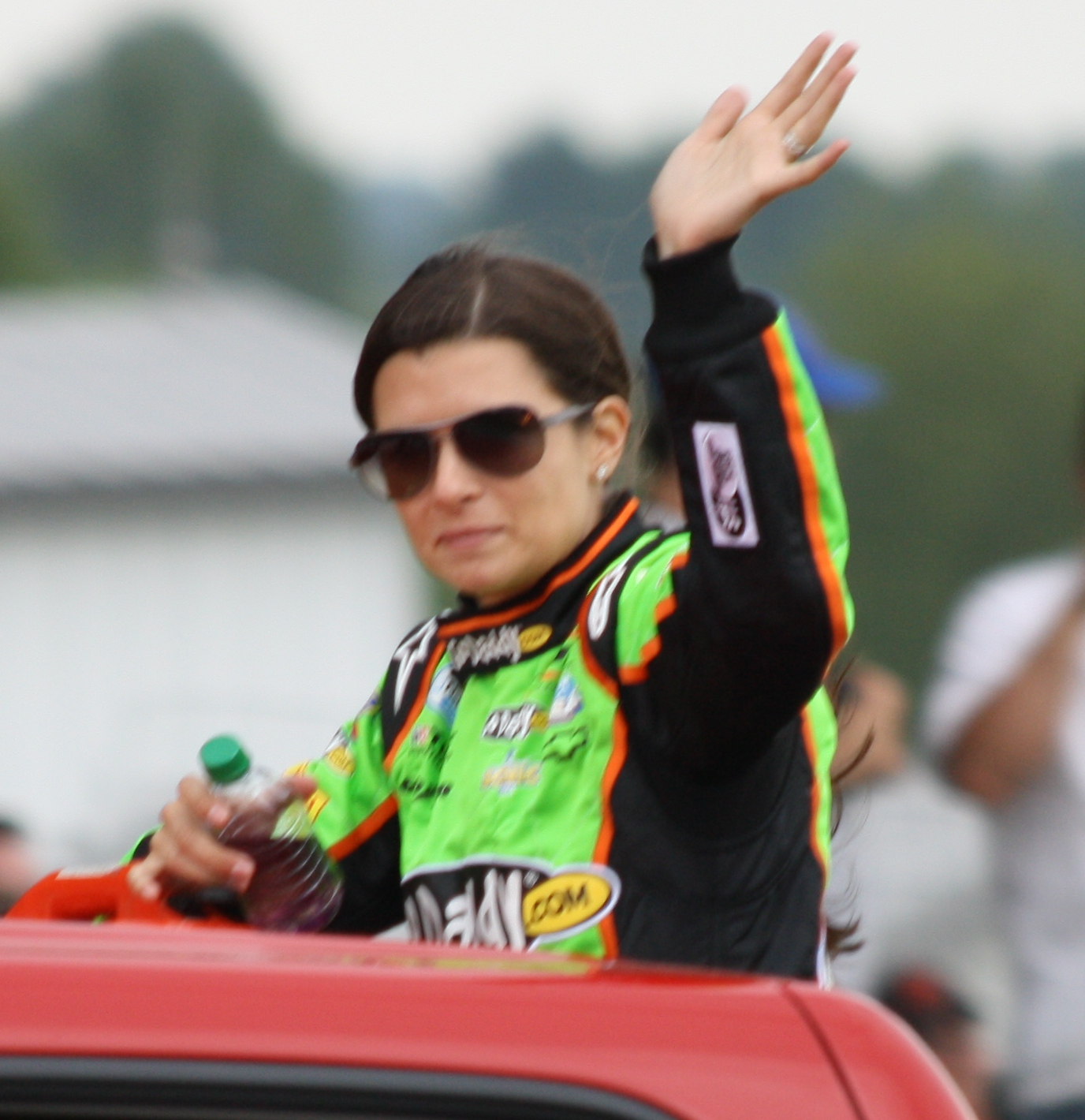 NASCAR driver Danica Patrick during driver's introductions at the 2012 Sargento 200 Nationwide Series race at Road America.